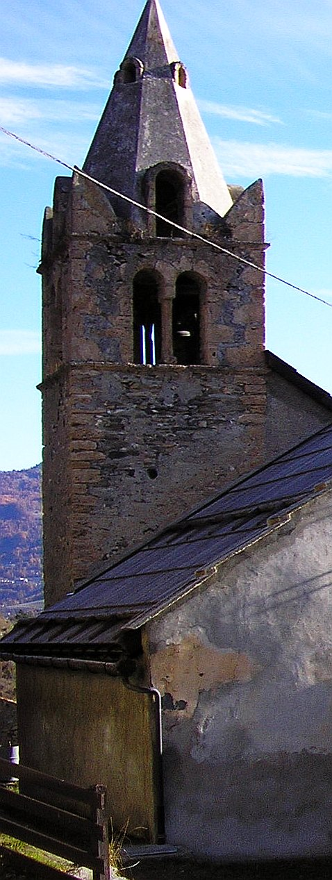 Desertes (Cesana, TO, Italy): church tower